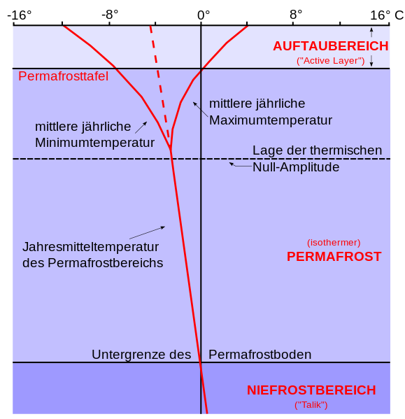 The red dotted-to-solid line depicts the average temperature profile with depth of soil in a permafrost region. The trumpet-shaped lines at the top show seasonal maximum and minimum temperatures in the "active layer". The active layer is seasonally frozen. The middle zone is permanently frozen as "permafrost". And the bottom layer is where the geothermal temperature is above freezing.